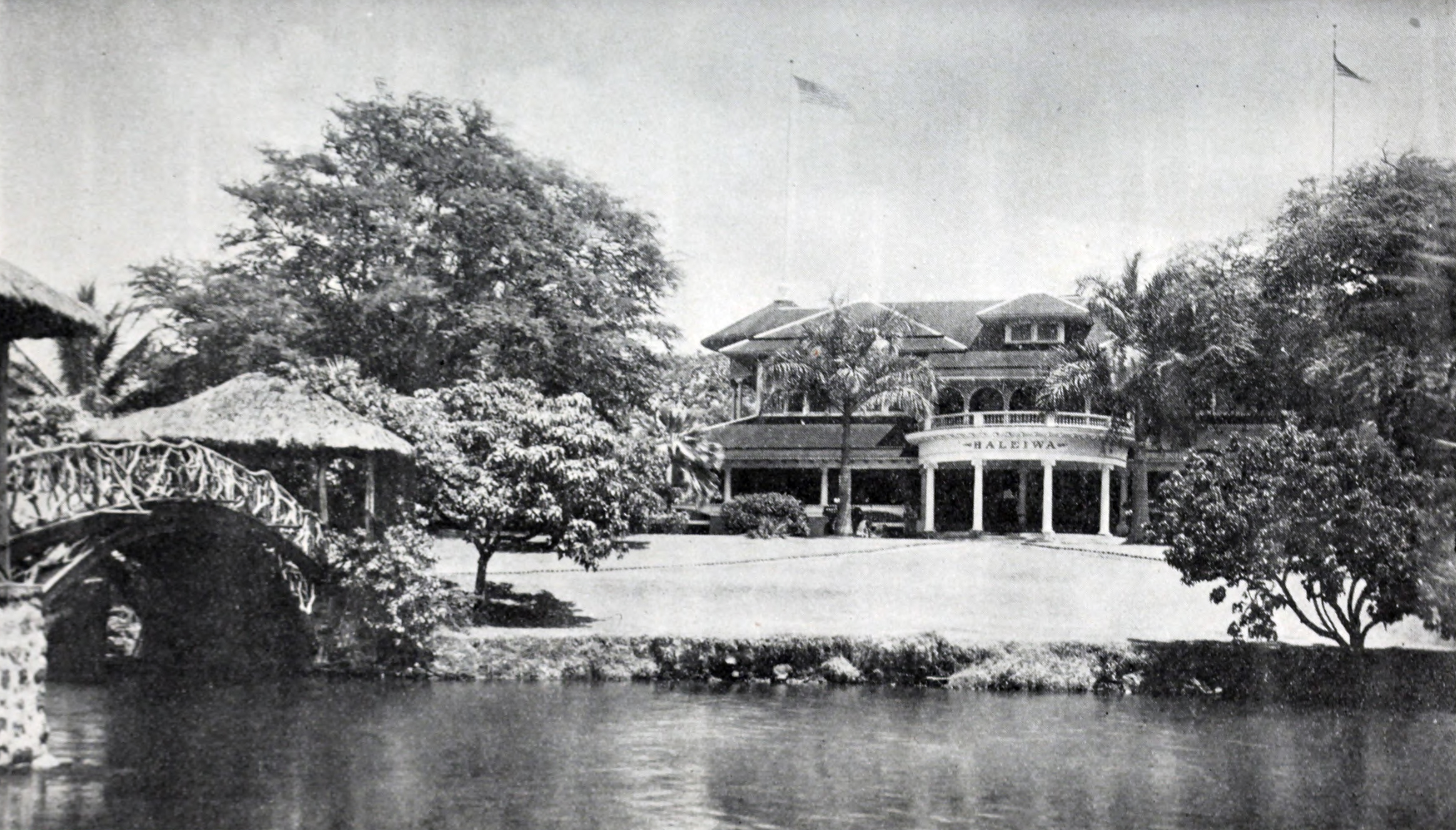 Haleiwa Hotel, the former Laanui Estate gardens, in Waialua, the former residence of Gideon Peleioholani Laanui.